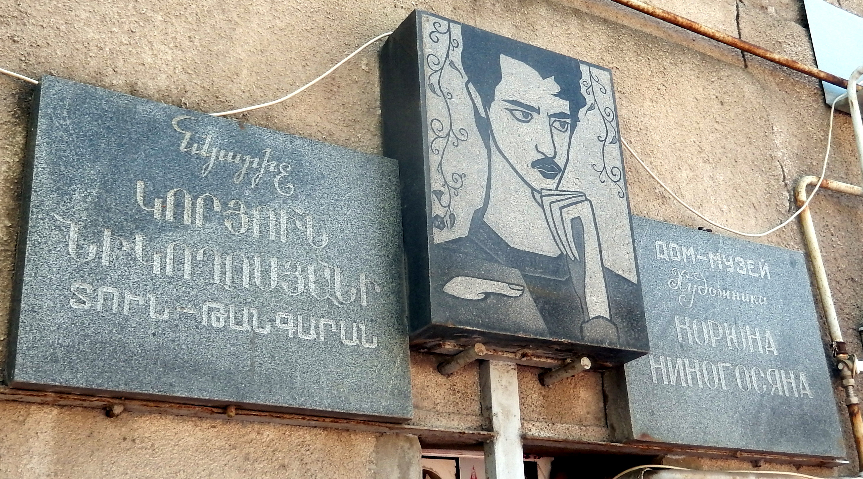 Koryun Nikoghosyan's house-museum